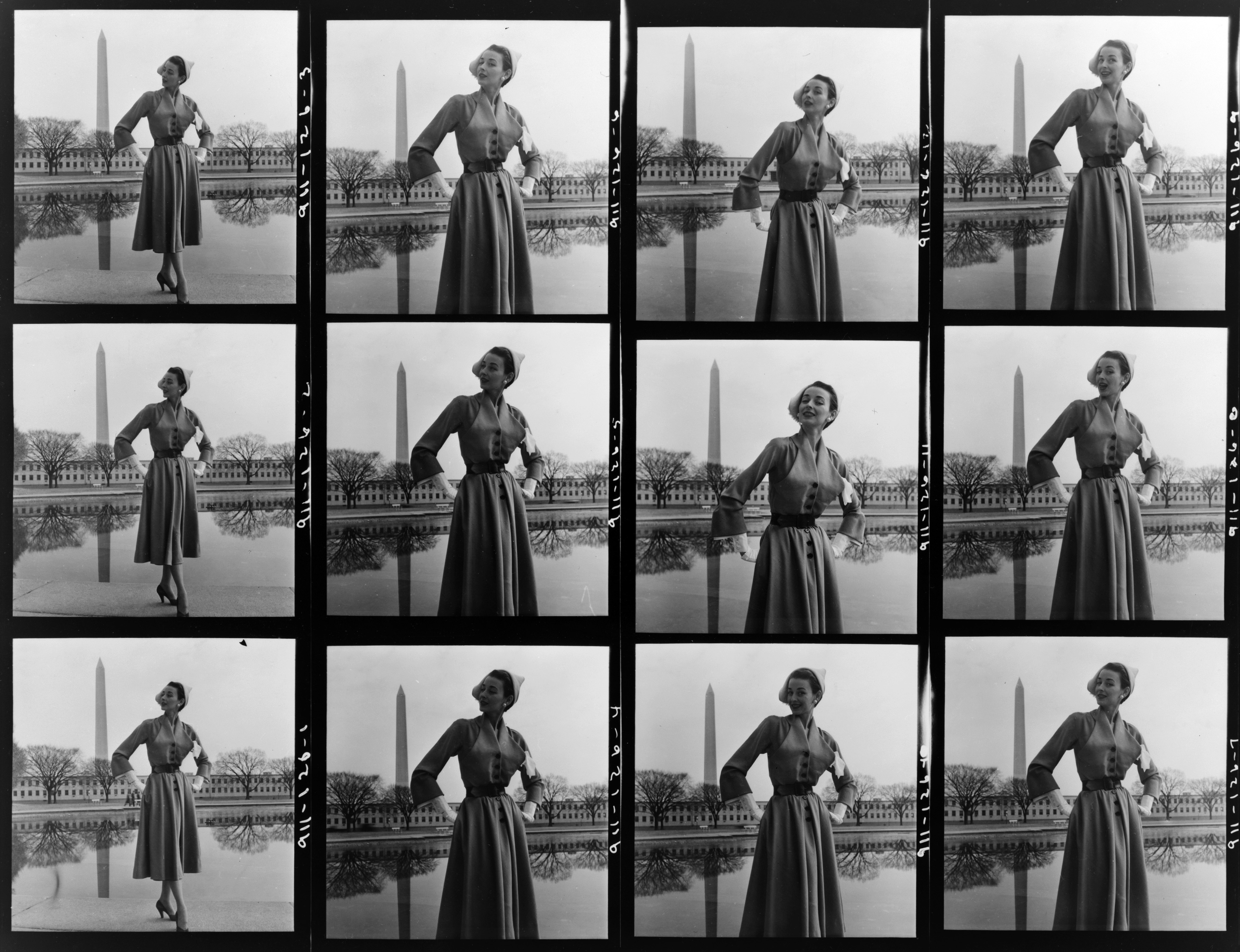 12-image contact sheet of fashion model posing near Tidal Basin with Washington Monument in background. Taken for Garfinckel's advertisements for Vogue magazine.